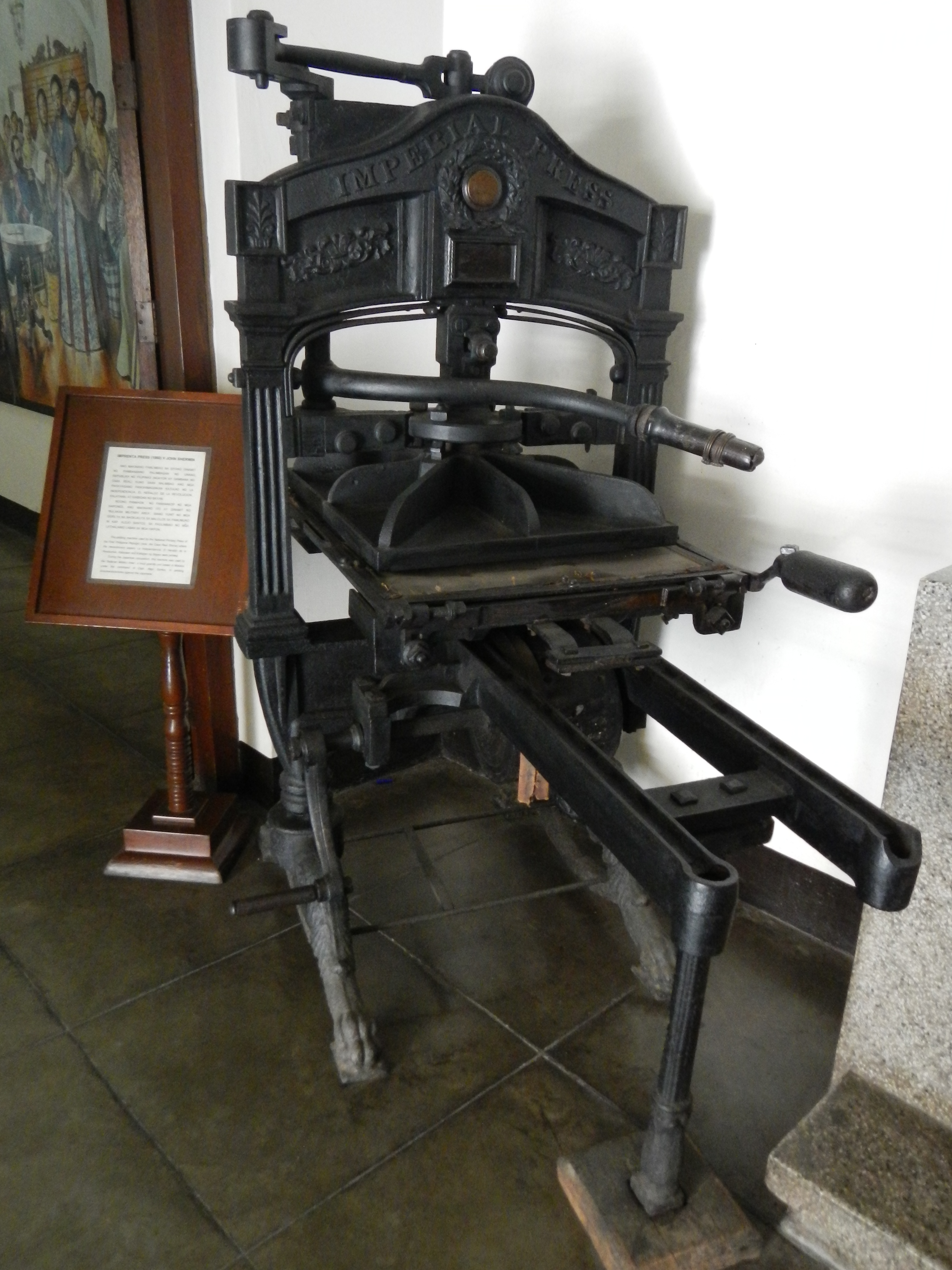 Casa Real de Malolos, Built in 1580,residence and office of the Gobernadorcillo of Malolos until 1673.It was used as Casa Tribunal of Pueblo de Barasoain in 1859.During American Occupation of Malolos,it was used again as the Municipal Hall of unified towns of Malolos,Barasoain and Sta Isabel in 1903-1940,Bulacan High School Annex in 1941.During Japanese period,served as office of Japanese Chamber of Commerce (1941–1944),in 1945 it became headquarters of Auxiliary Unit of US Army.In 1946 served as Temporary Provincial Capitol of Bulacan because the province capitol was damaged during World War II.In 1947,Bulacan Trade School,1948 a Branch of Philippine National Bank.And in 1950,Malolos Postal Office.Today it is a Museum maintained by the National Historical Institute containing artifacts and memorabilia holding relics of the 21 Women of Malolos. [1]